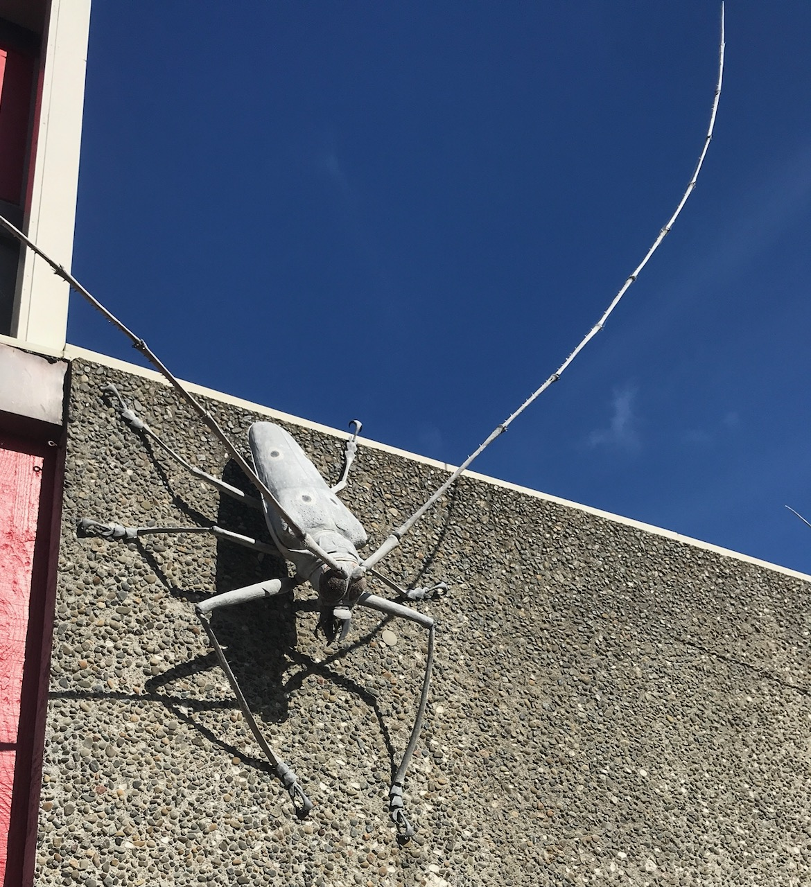 One of the four sculptures in Batocera longhorns & Goliath (1996), by Elizabeth Thomson, mounted on the exterior of Te Manawa, Palmerston North. Polychrome and bronze. Sculpted from specimens originally from Queensland, now in the collection of Te Papa. Commissioned in 1996 as part of the Gertrude Raikes (1882–1985) Bequest.